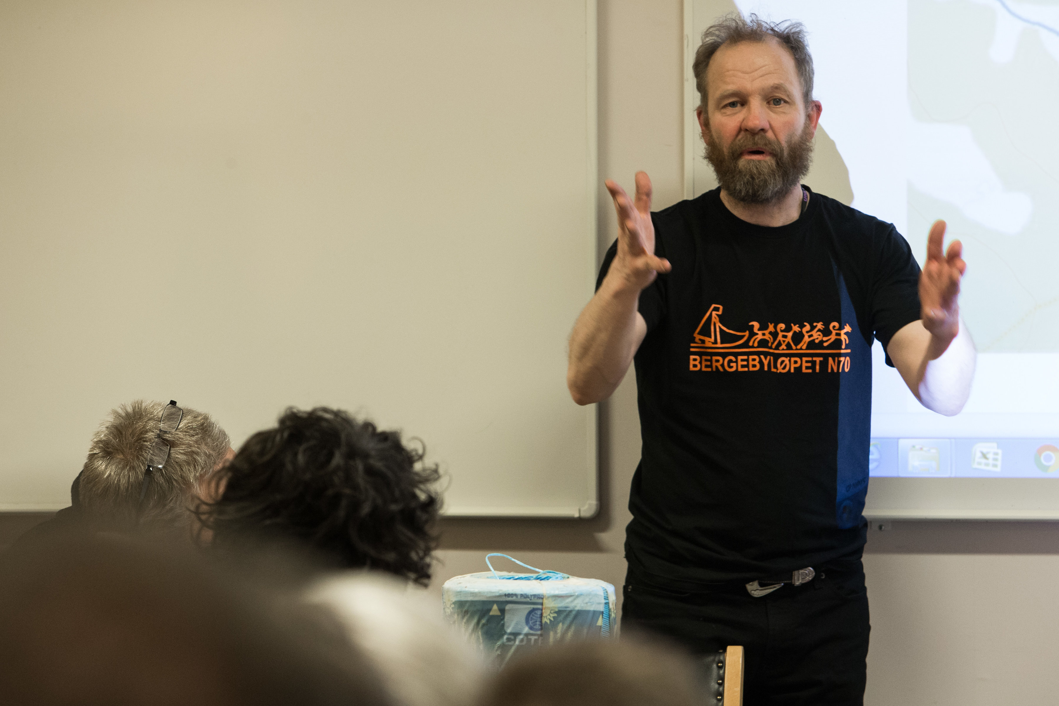 Kjøremøte på militærbrakka - Nesseby, NORWAY, January 30. 2017 - Bergebyløpet N70 ©Samuel Bay/VTHK